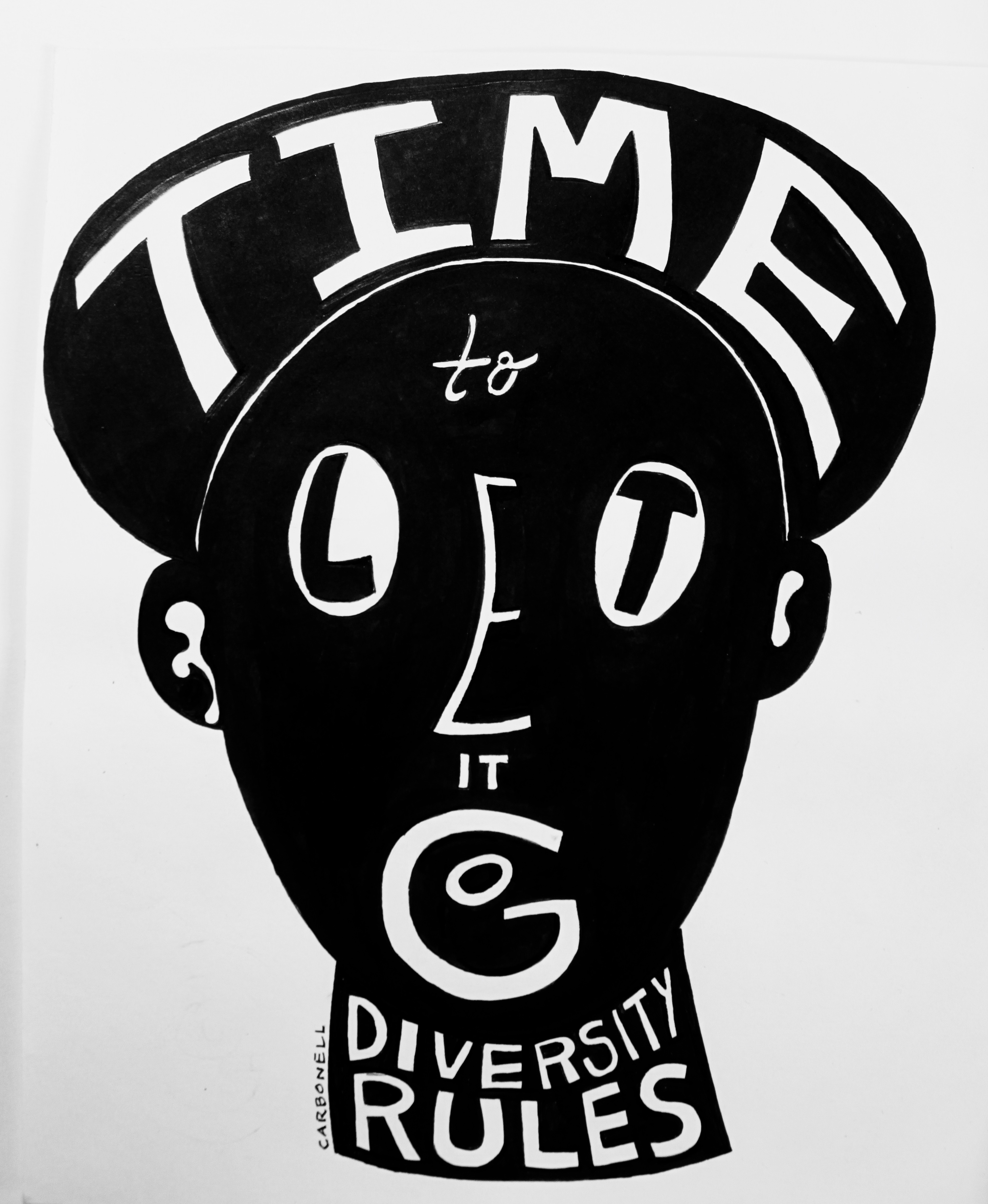 carbon commentary